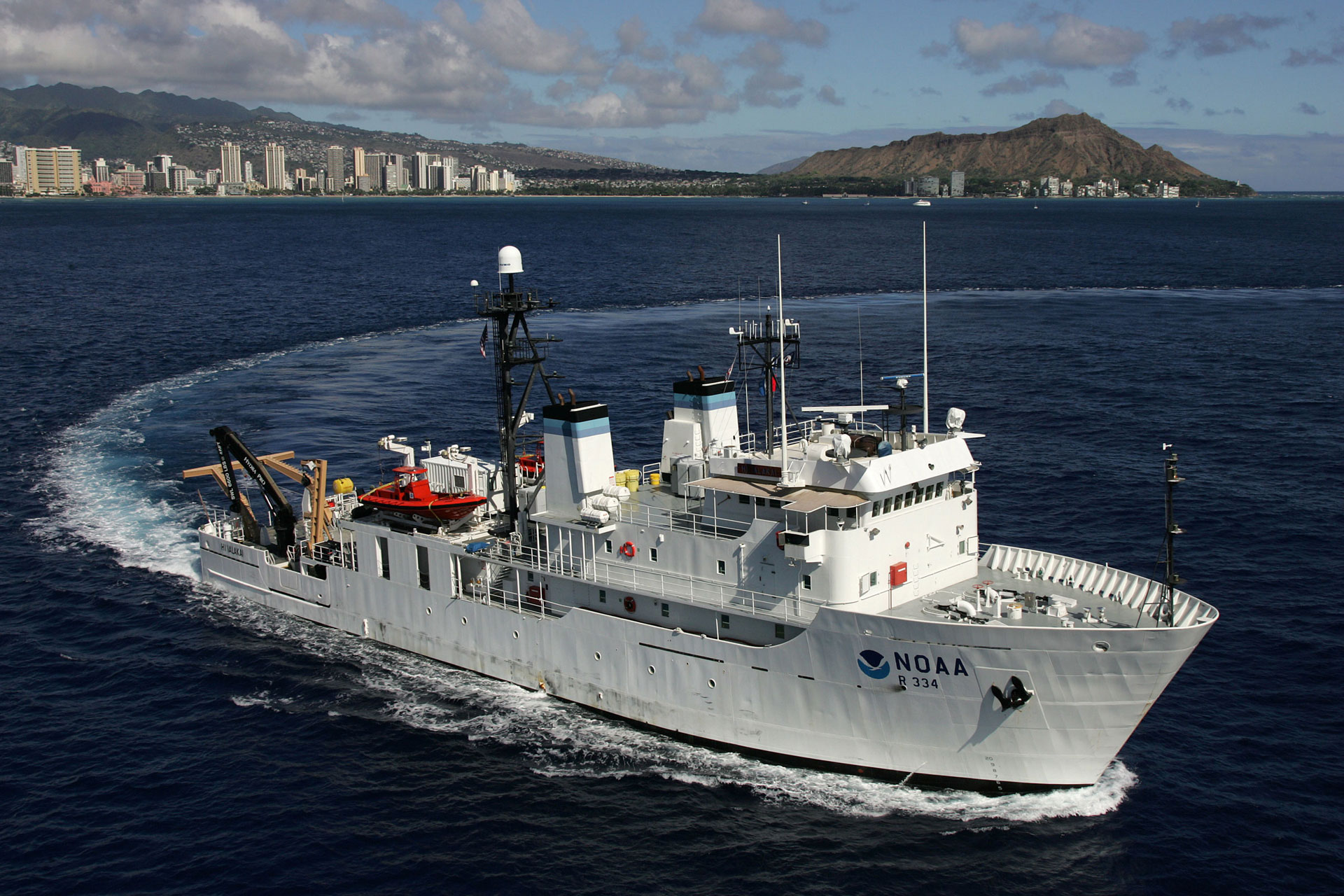 The Hi’ialakai is one of seven former Navy T-AGOS class ships transferred to NOAA. T-AGOS ships are monohull ocean surveillance ships originally designed to gather underwater acoustical data. Hi’ialakai was converted to conduct coral reef and related research in the Hawaiian Islands, primarily in support of NOAA’s National Ocean Service. To learn more about coral research, visit: NOAA Coral Reef Conservation Program Corals Tutorial, (National Ocean Service Education) Coral Reef Conservation (Original source: National Ocean Service Image Gallery)